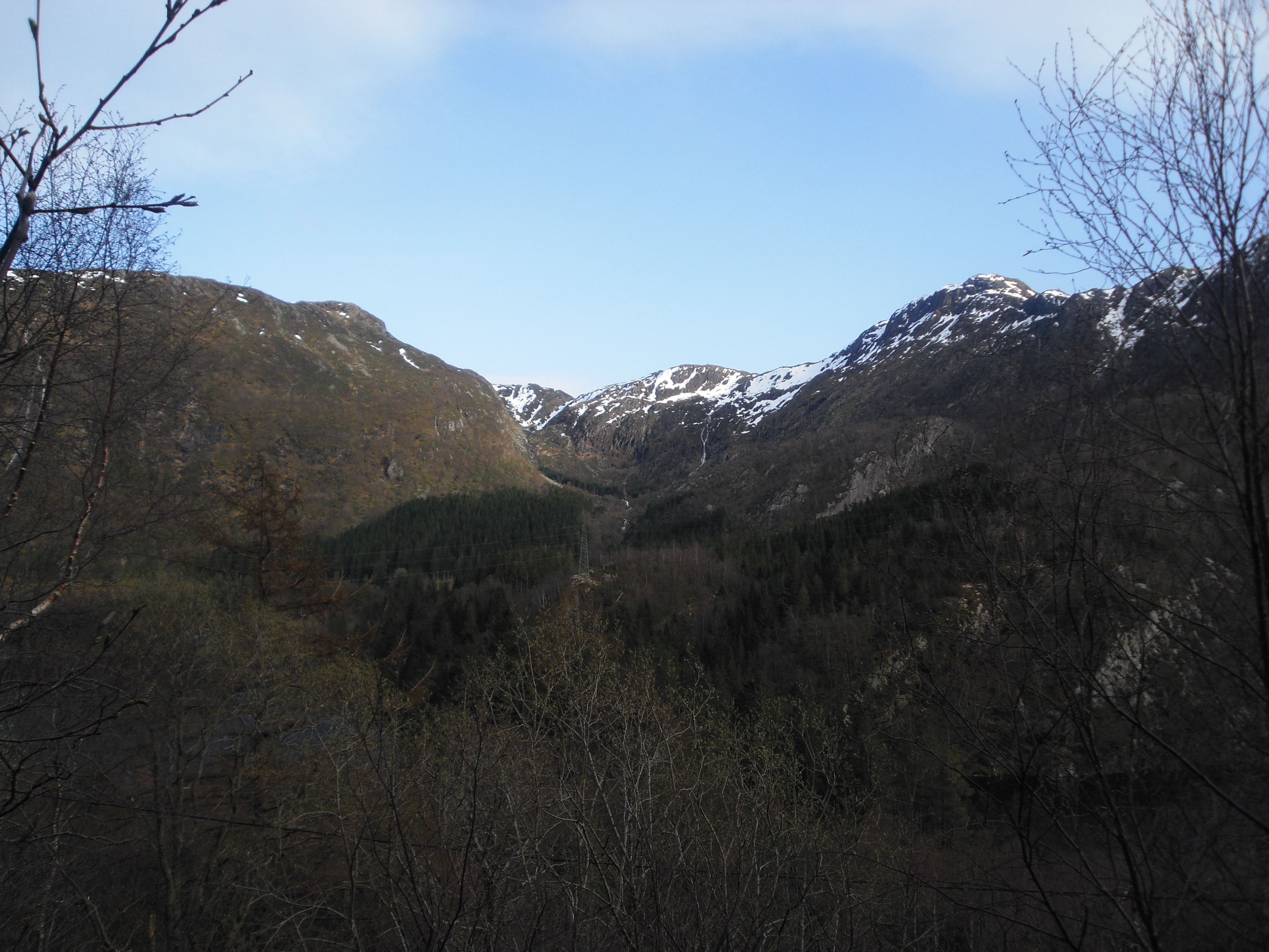 Isdalen in Bergen, Norway